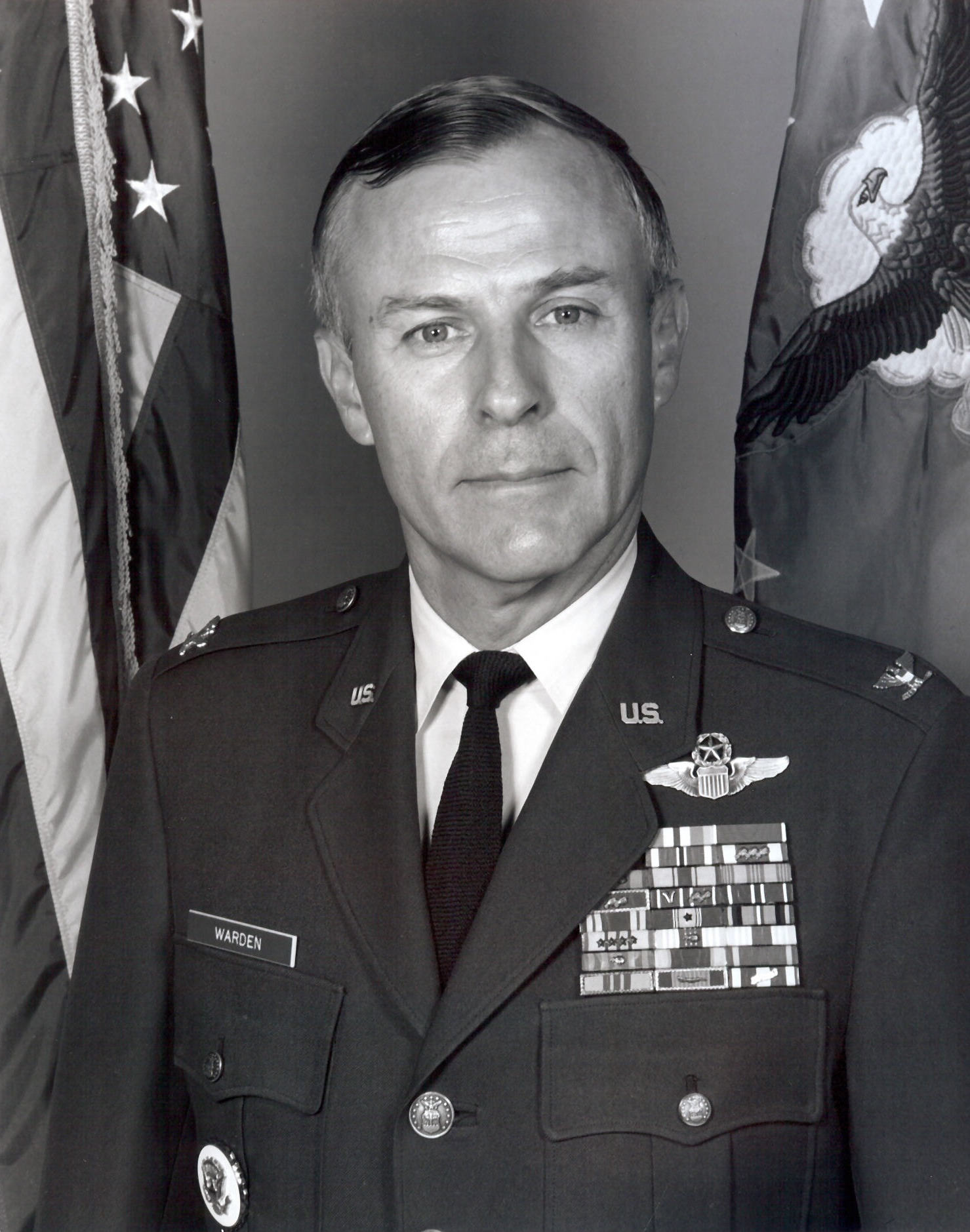 Official photograph of John Warden taken in 1994 when he was Commandant of the Air Command and Staff College (ACSC)